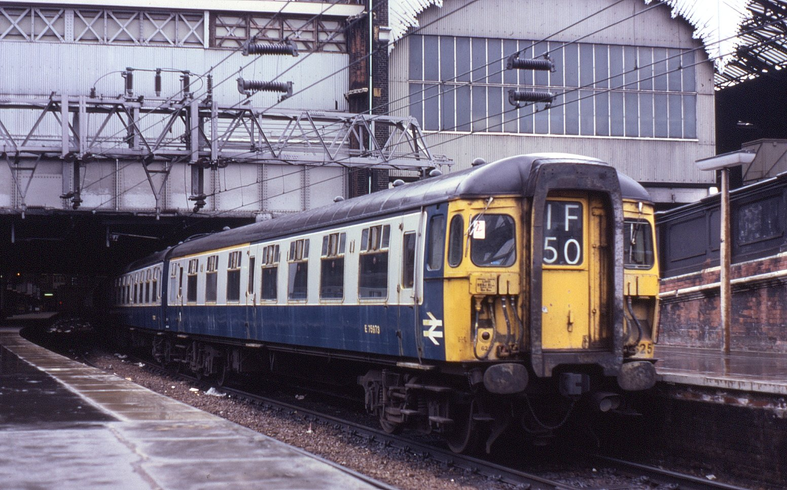 Built in the early 1960s for the electrification of the Great Eastern Main Line. They were more or less dedicated to services to Clacton-on-Sea and Walton-on-the-Naze usually spiting at Thorpe-le-Soken. Originally constructed with distinctive wrap round windows, they were the first EMUs to have a speed of 100mph. They were replaced on the Clacton route in 1994 with less elegant class 321s and some found their way to the North West of England to work services by train operator North Western Trains. They have now all been withdrawn. Seen at London Liverpool Street on 21 March 1981 is unit 309.625 leading the usual 10 car set comprised of 2 x 4 cars (one set with a buffet car) and 1 x 2 car.